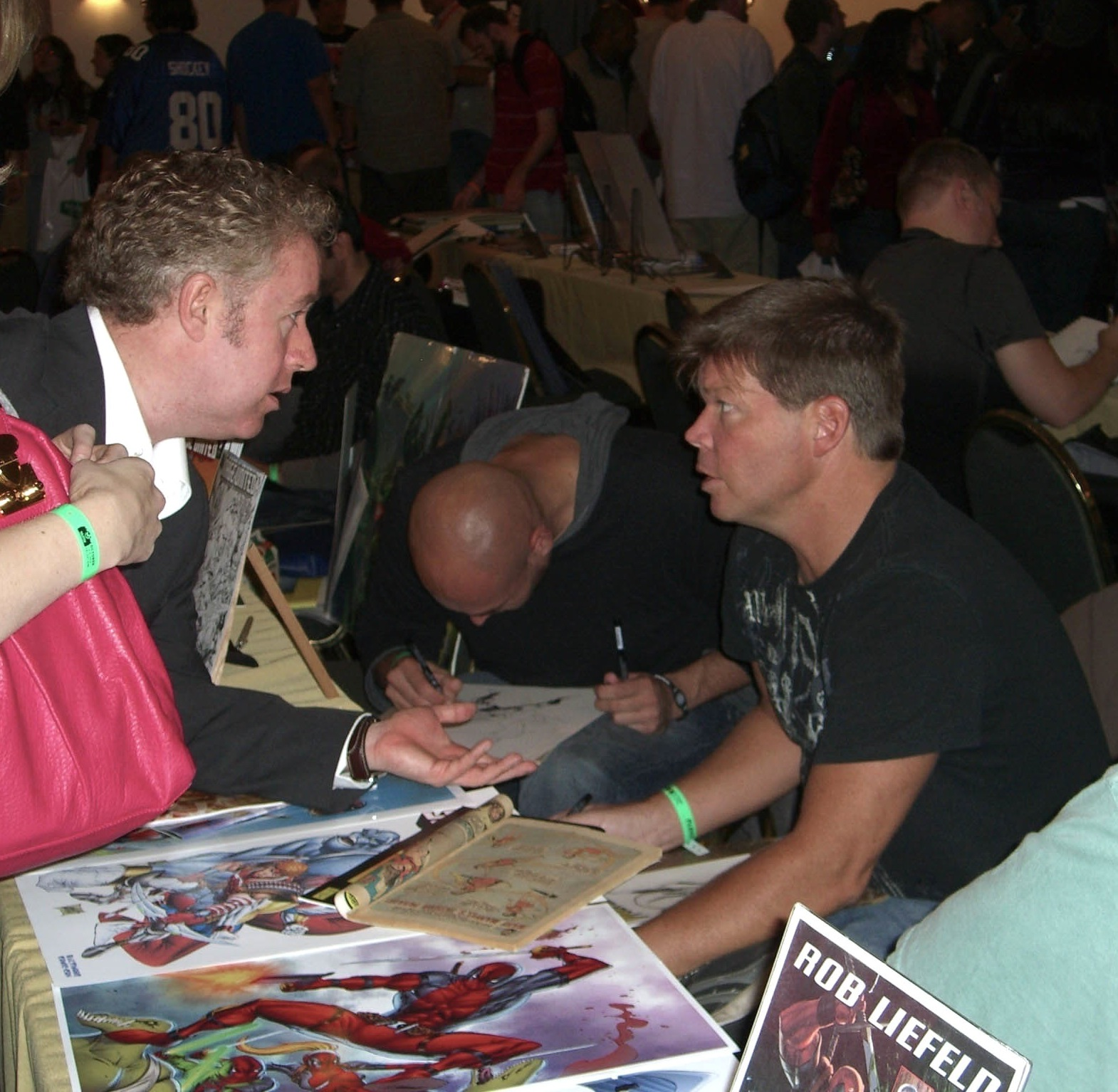 Comic book creators Mark Millar (left, leaning on table) and Rob Liefeld (seated right) at the Big Apple Convention in Manhattan, October 2, 2010. Photo by Luigi Novi. This photo may be used, modified and published for any purpose, only if a easily visible credit to the photographer is placed near the photo in each instance in which it is used. (See licensing information below.) Publication of this photo without this proper attribution constitutes copyright infringement. For more information on my photos, you can contact me here.